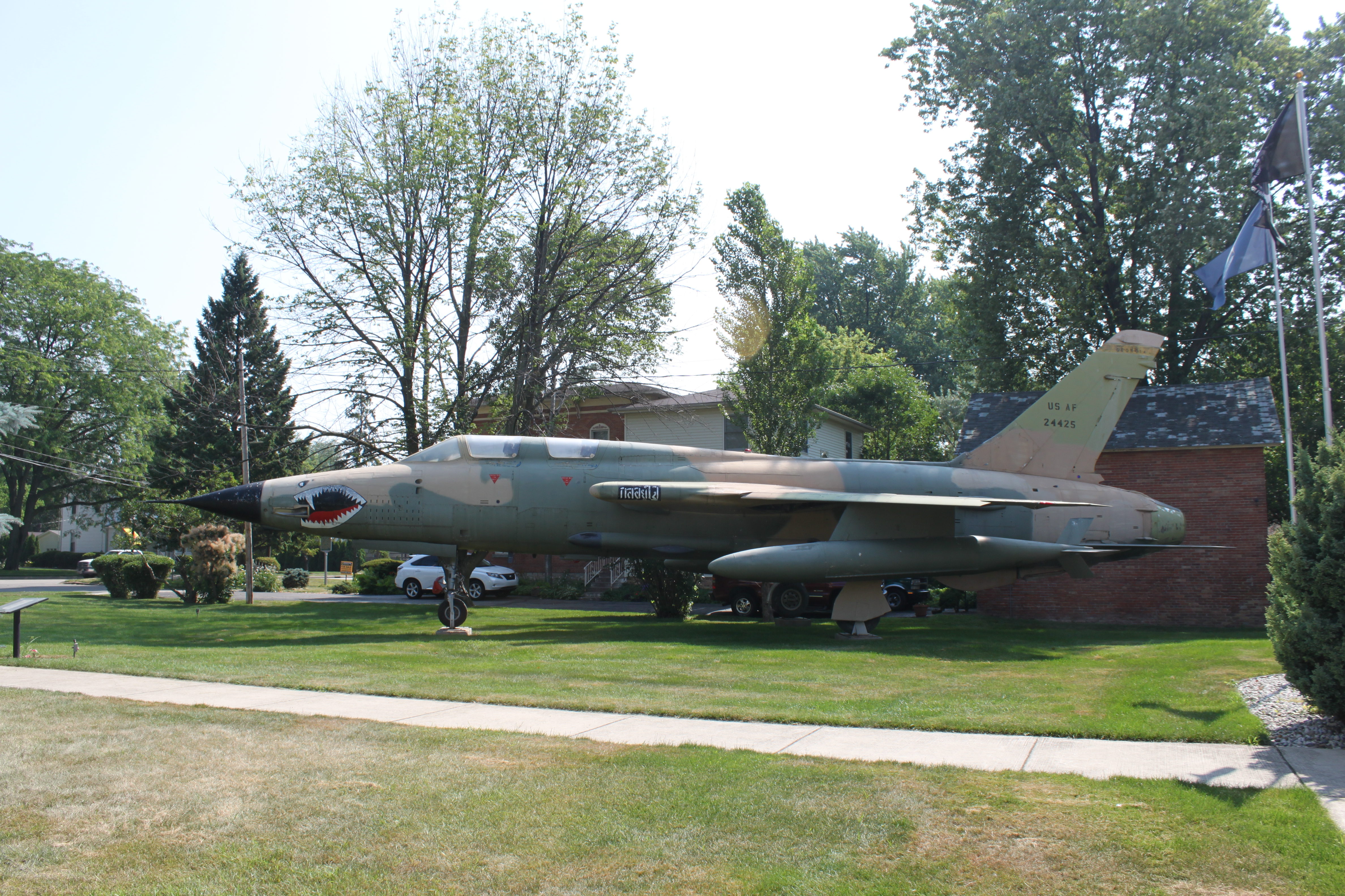 F-105G Thunderchief on display at American Legion post 325, Blissfield Michigan